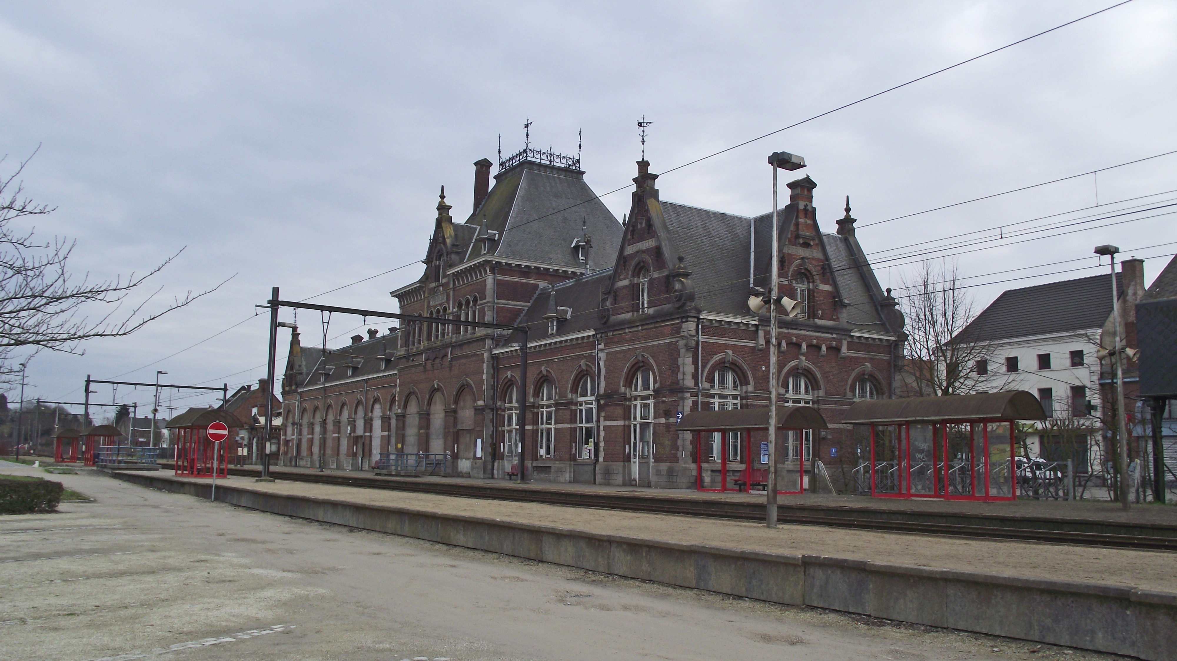 Péruwelz station railside. Only the leftside is in use. The other side is boarded up.